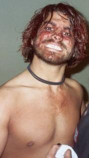 Jacobs, hours after the cage match against Whitmer, missing half of his front tooth.